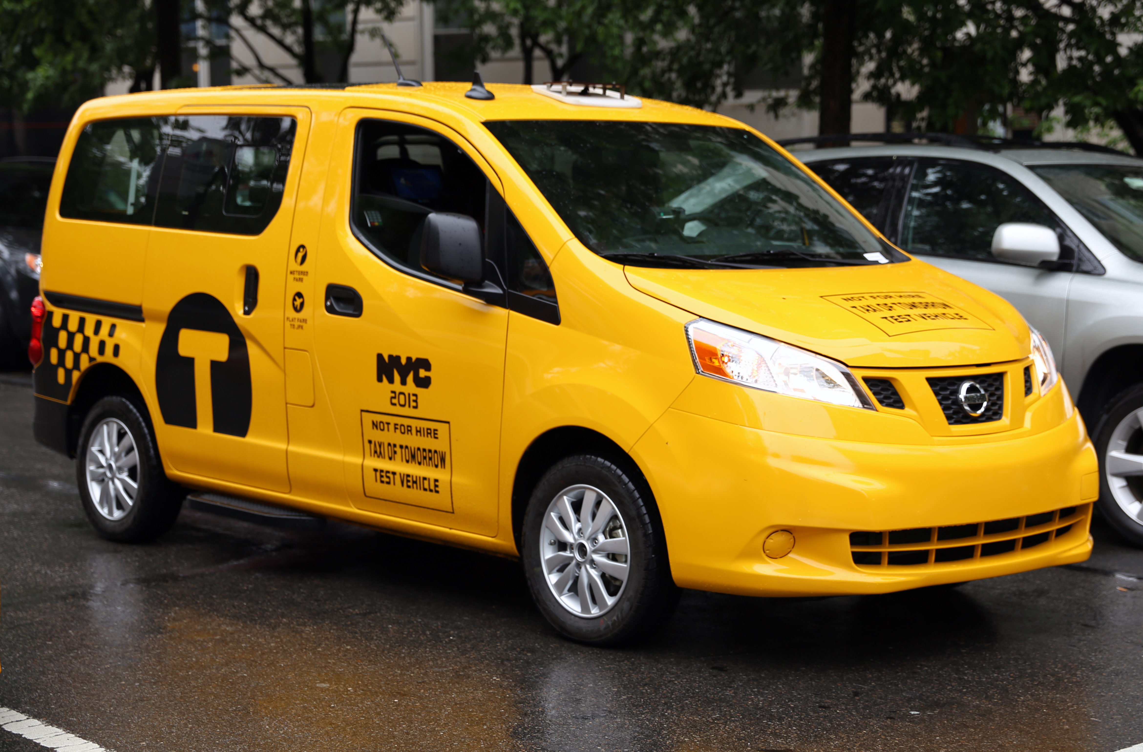 Nissan NV200 New York Taxi test car. It won't pick you up. With Michigan manufacturer's plates, although it is built in Mexico.